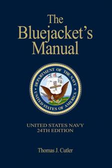 Bluejacket's Manual 24th edition May 2009. Thomas J. Cutler